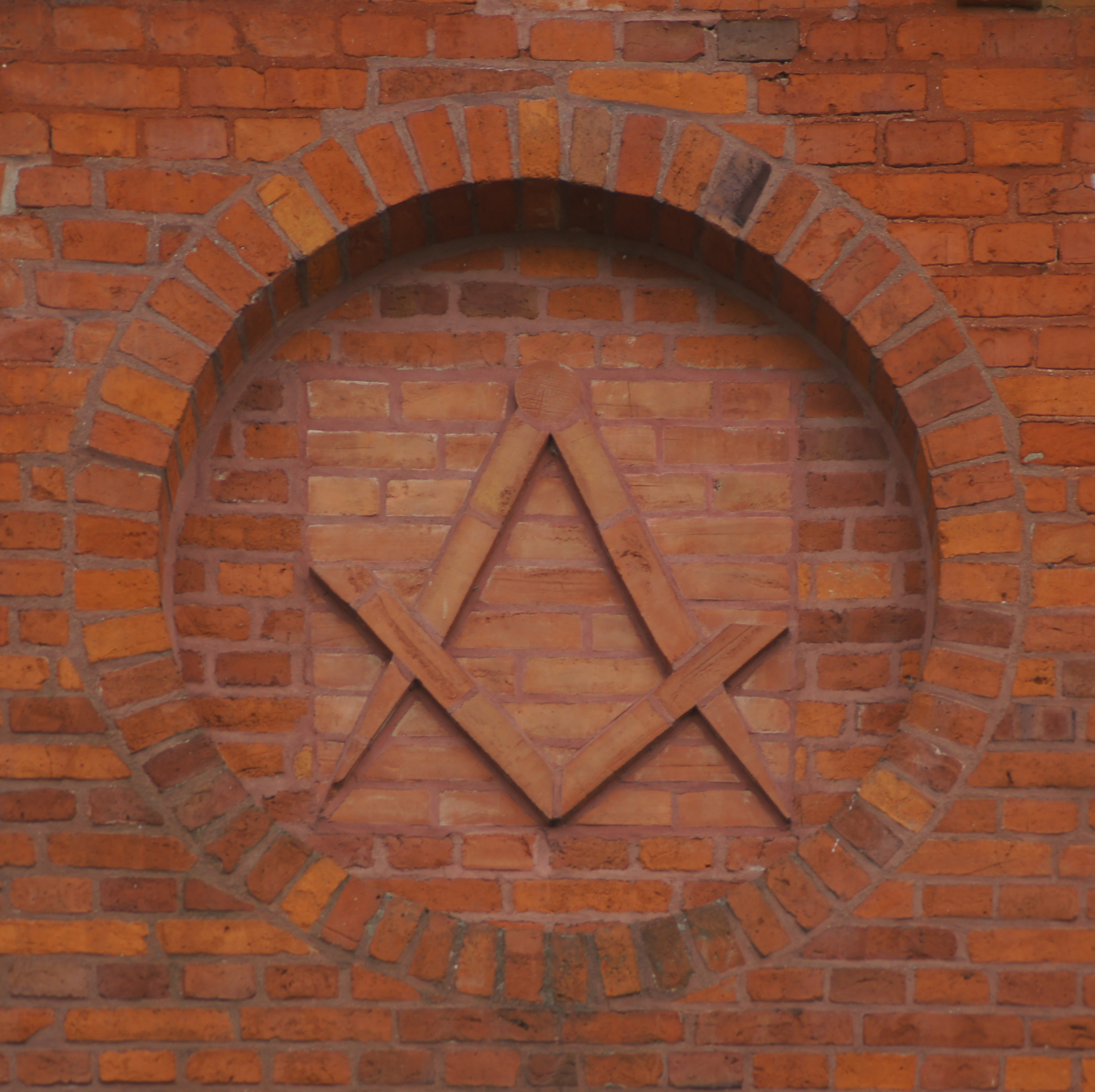 Boizenburg, Germany: Masonic Temple: detail from the eastern facade